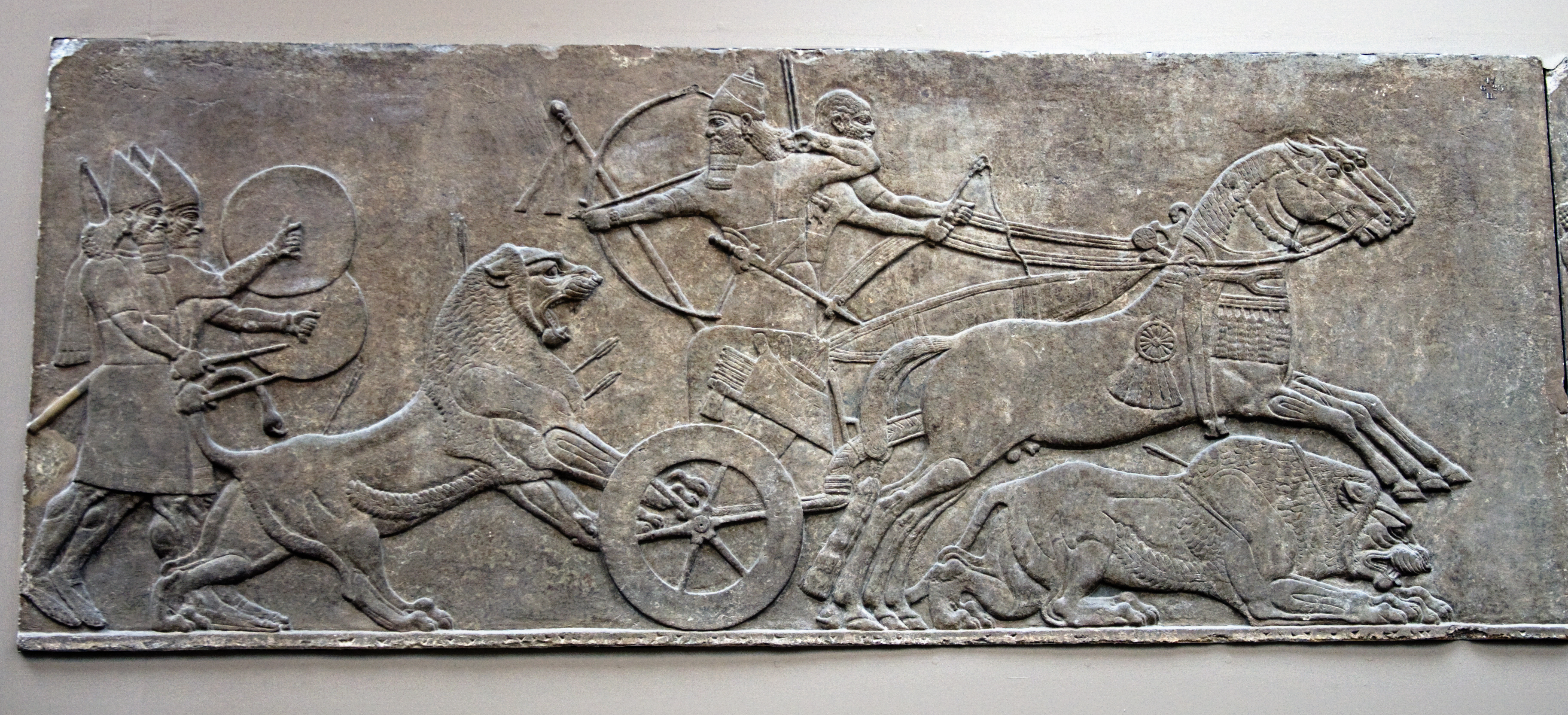 Assyrian lion hunting relief from Nineveh. Tag on exhibit states: "Lion hunt. Assyrian, about 865-860 BC. From Nimrud, North-West Palace, Room B, panel 19 (top). King Ashurnasirpal shoots at a wounded lion. WA 124534" See BM database entry for more details